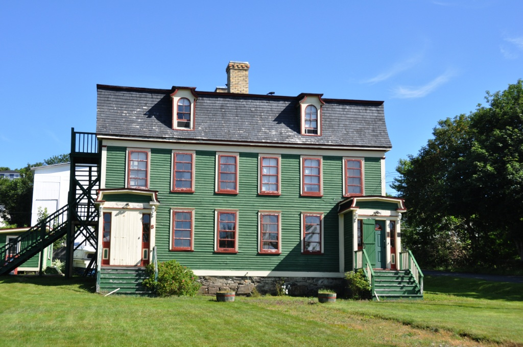 Keneally House, Carbonear, Newfoundland.